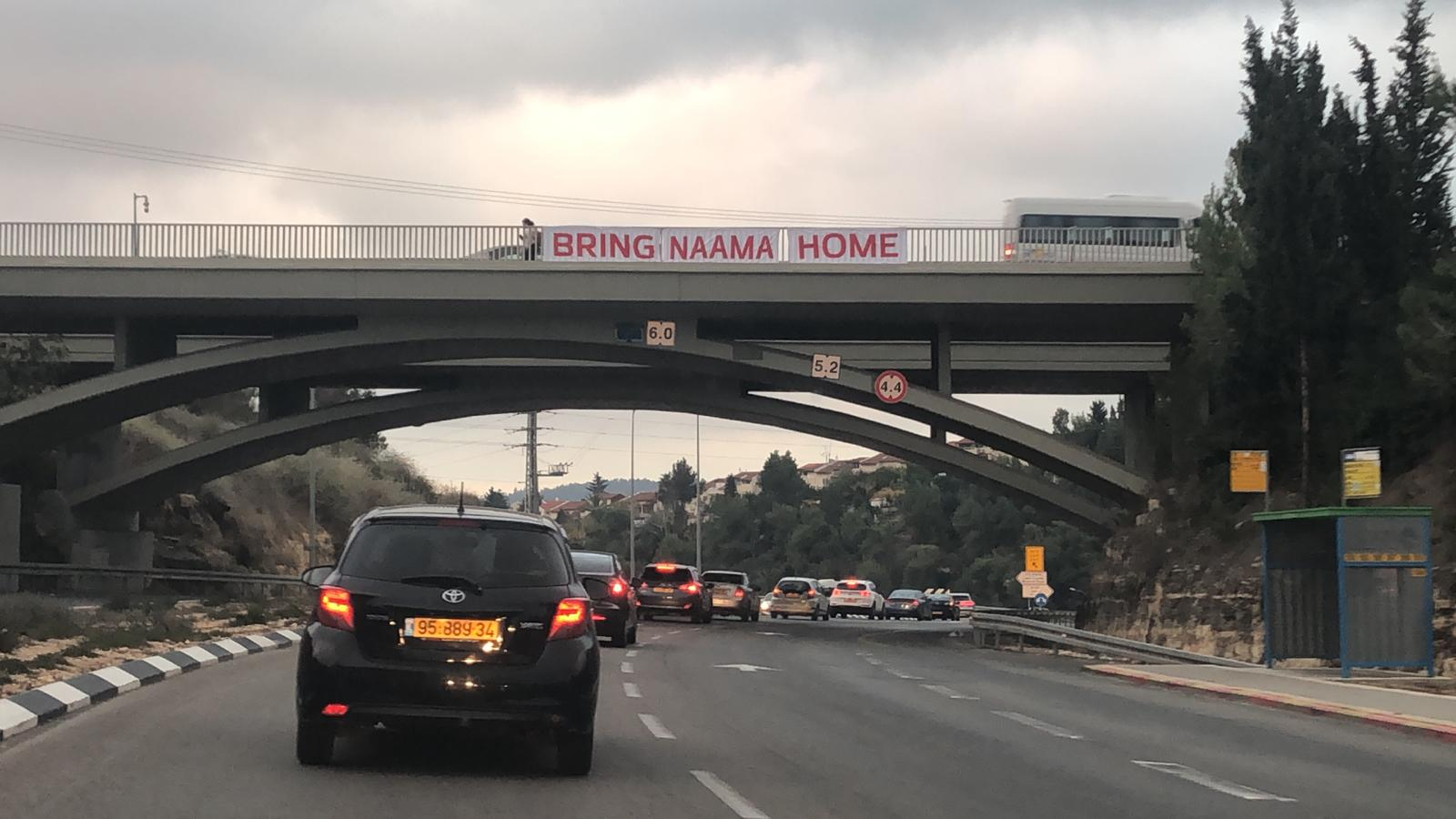 "Bring Naama Home" sign put on a bridge on the highway N.1 from Tel-Aviv to Jerusalem. The sign call for the release of Naama Issachar from Russian prison.